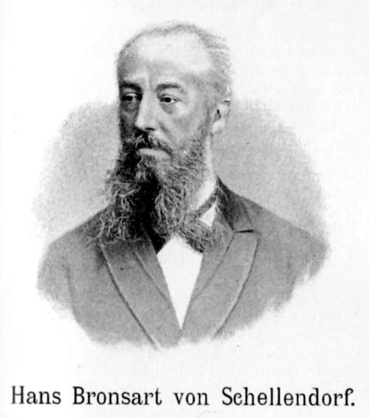 German pianist and composer Hans Bronsart von Schellendorff (1830—1913)